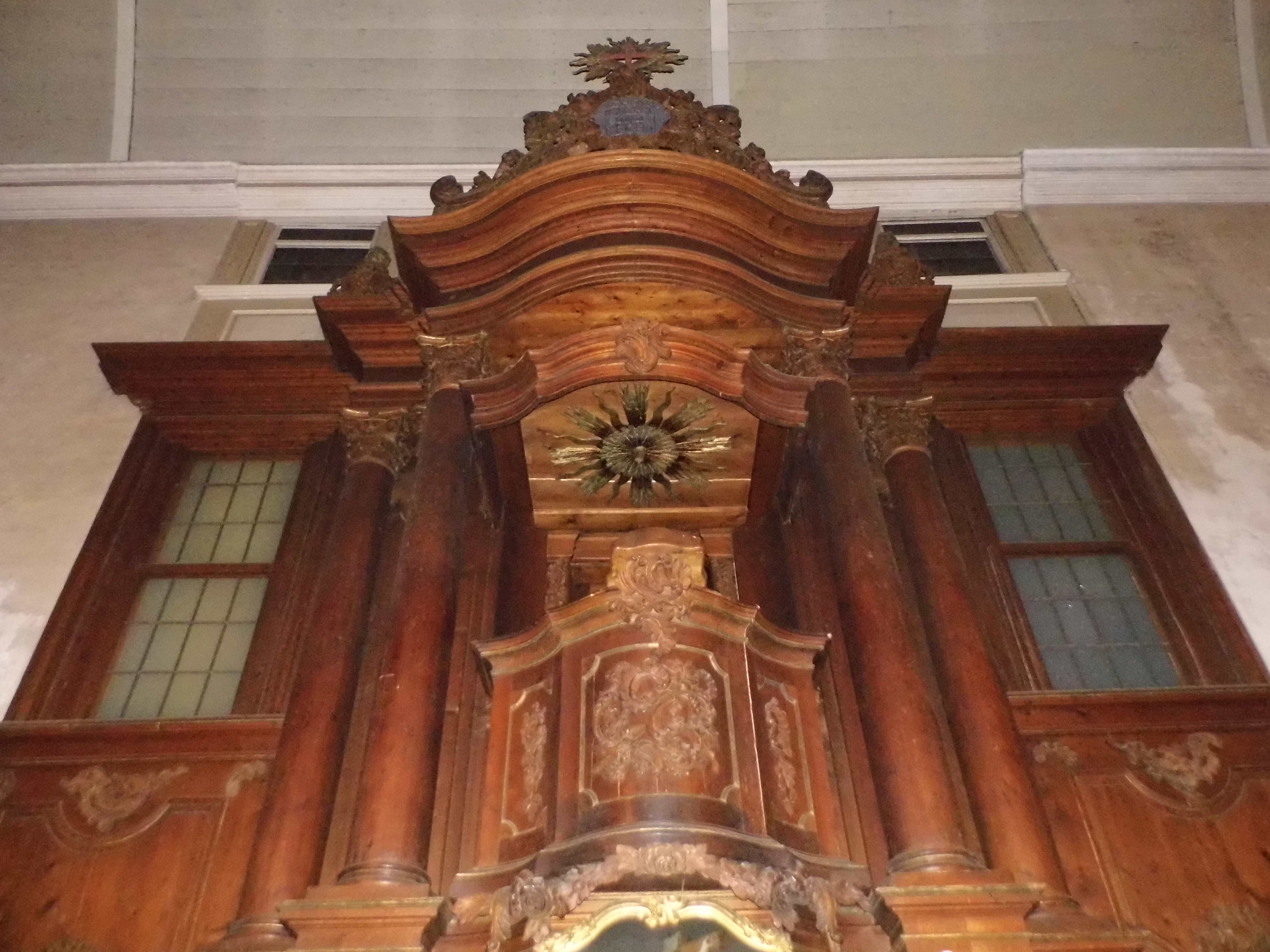 Der Kanzelaltar, deutlich zu sehen der baldachinartige Schalldeckel der Kanzel